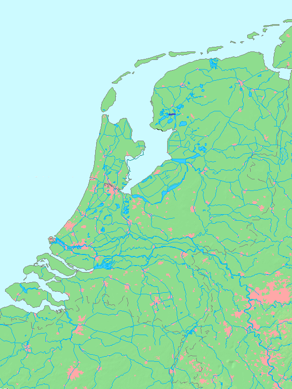 Location Jeltesloot in Friesland, the Netherlands